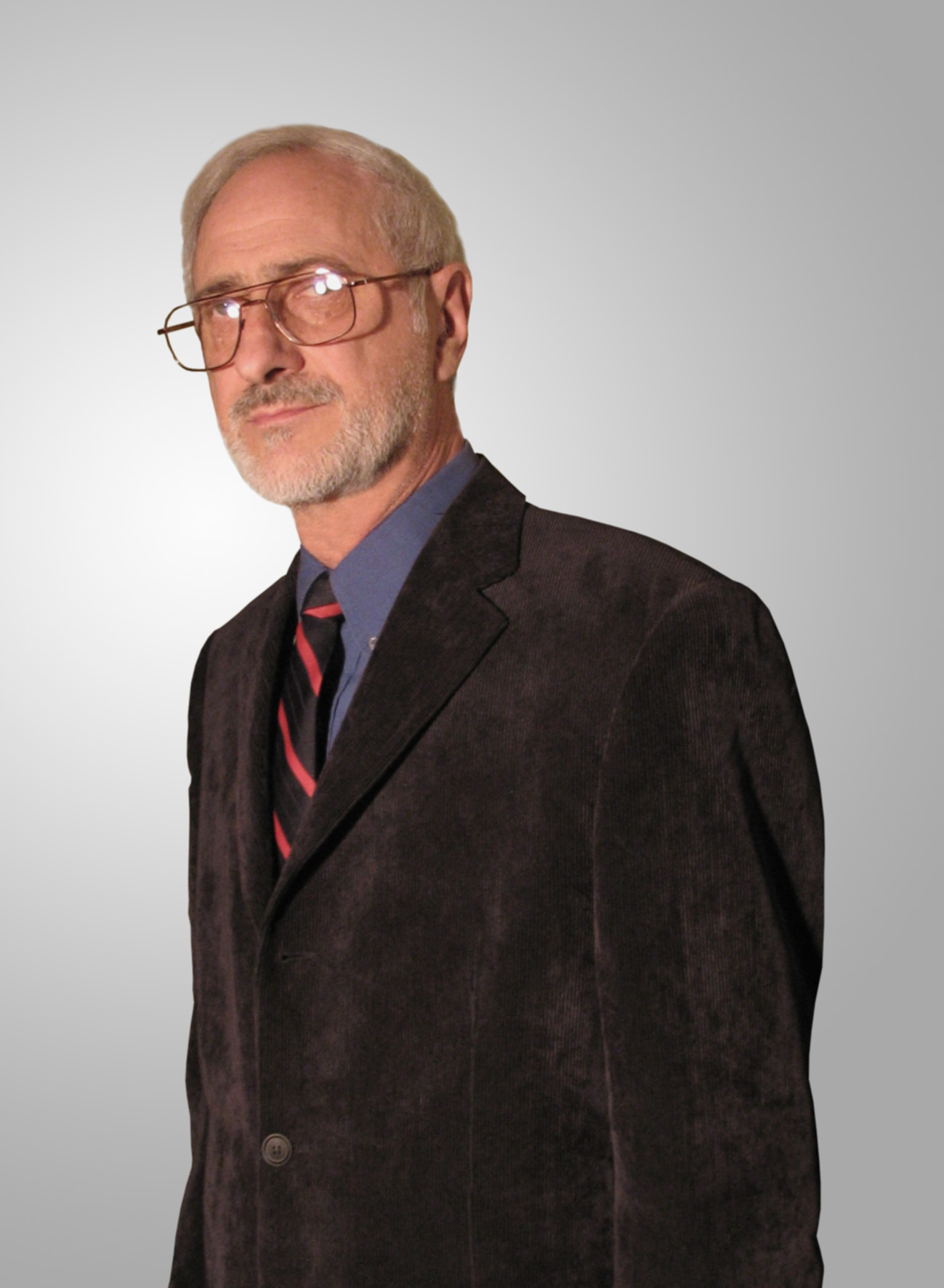 Ljupko Curcic